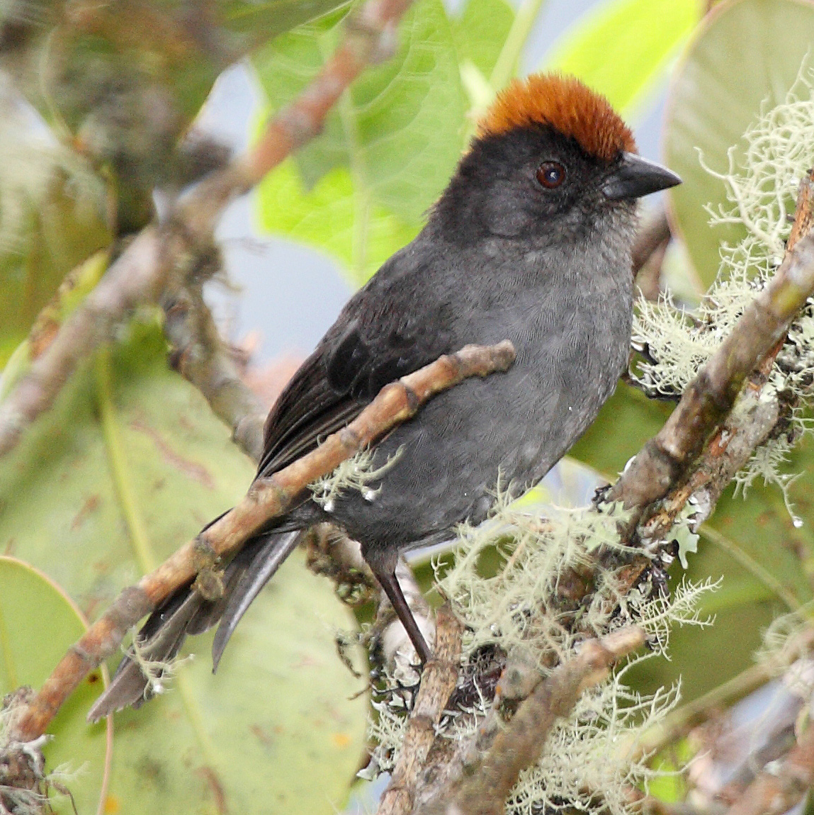 Cusco Brush-Finch in Peru